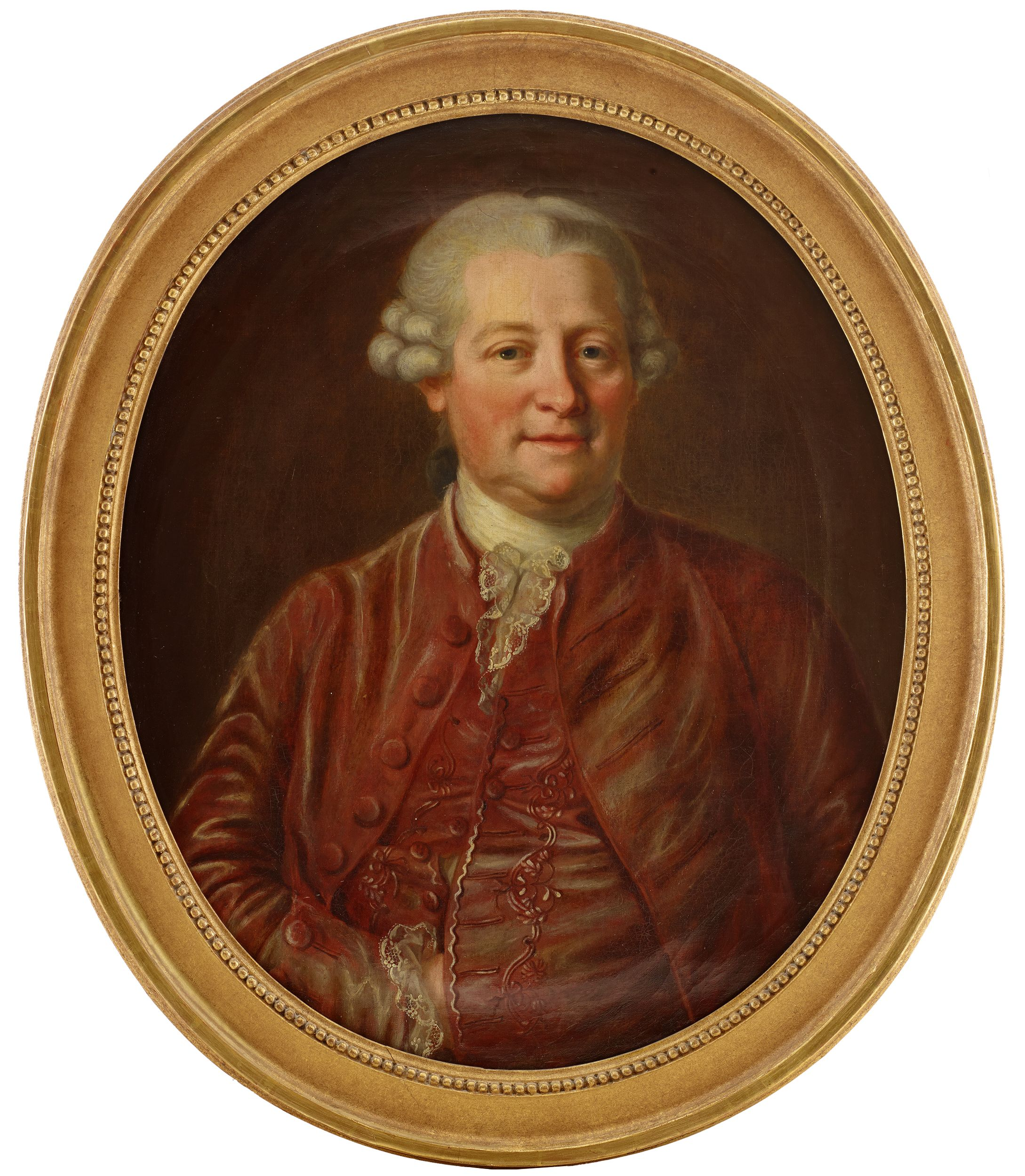 Portrait of the merchant Carl Gottfried Küse (1725-1795). Portrait by Ulrica Fredrica Pasch (1735-1796).